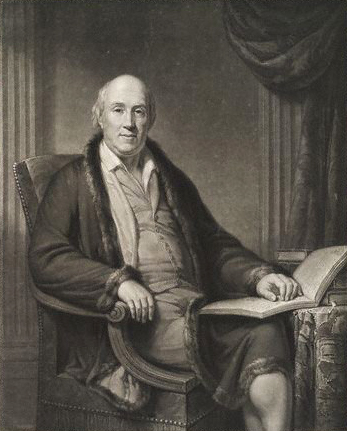 Richard FitzWilliam, 7th Viscount FitzWilliam (1745-1816)